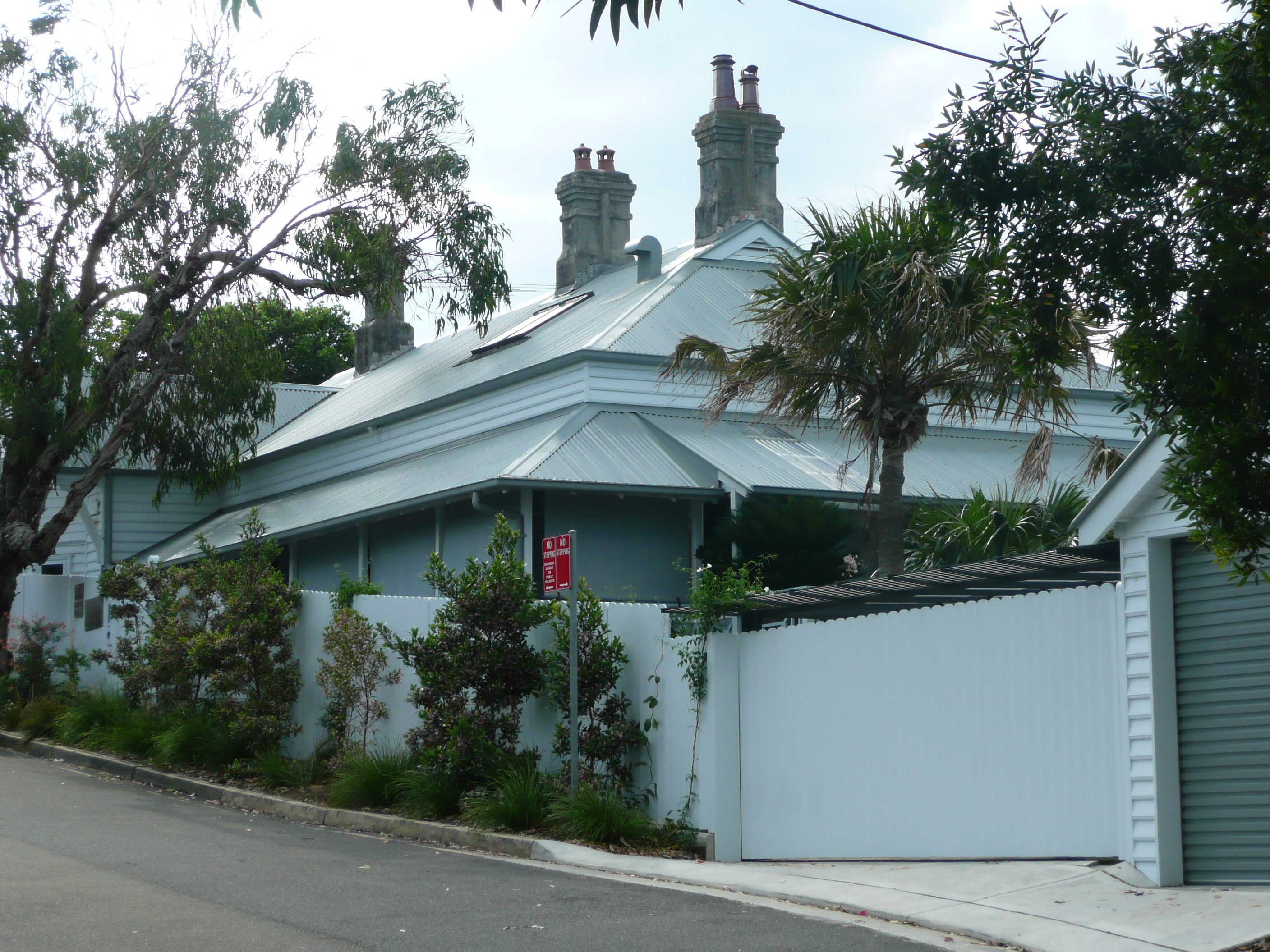 Former marine biological station Pacific Street and Laings Point, in Watson's Bay (Sydney) built and used by Nicholas Miklouho-Maclay (1885). It is now a heritage-listed building.